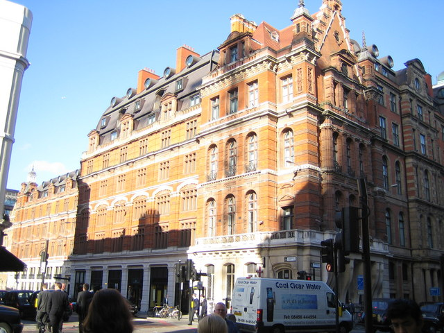 Broadgate: Great Eastern Hotel, Liverpool Street, EC2 Designed by Charles Barry, opened in 1884, extended in 1901, and the subject of a £65 million refurbishment completed in 2000, the 267 bedroom Grade II listed hotel is on the north side of Liverpool Street, at its junction with the A10 Bishopsgate. Liverpool Street station is behind the hotel in this view. The hotel was sold by Conran Holdings and others to Hyatt Hotels in 2006.